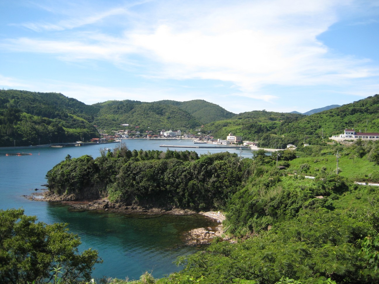 The main populated area on Chibu, Koori and Ooe. Visible in the picture is Chibu JHS in the center, Kaihatsu Center (community center) in the right-center, and the retirement home on the far right.